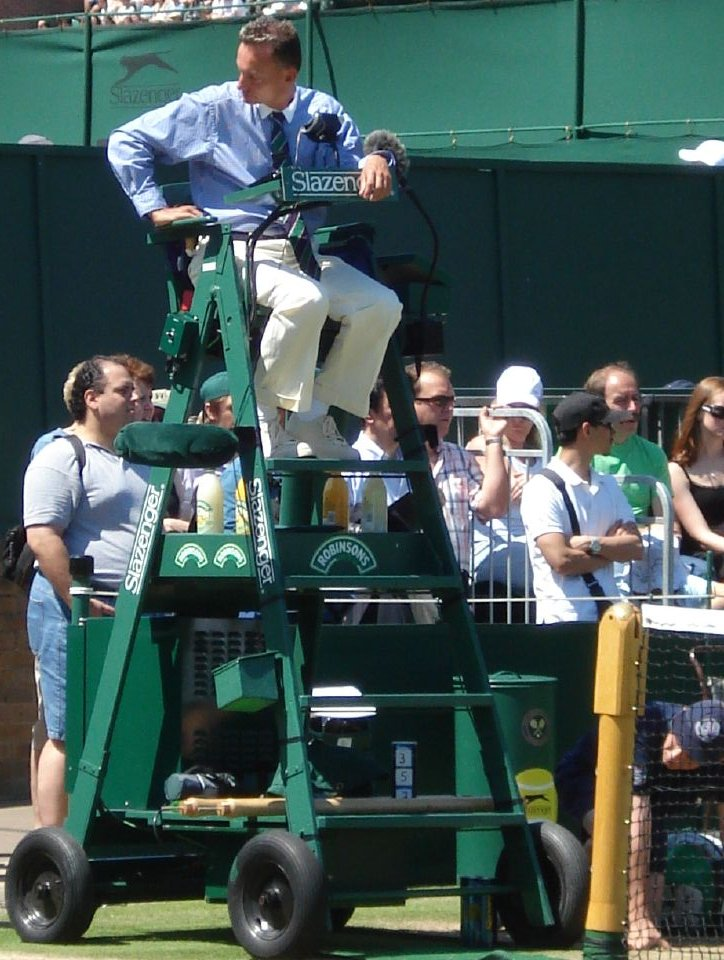 A chair umpire readies himself prior to the start of a match at The Championships.